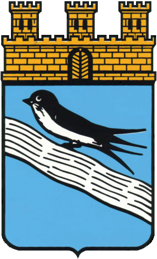 Coat of arms of Bad Schwalbach, Germany